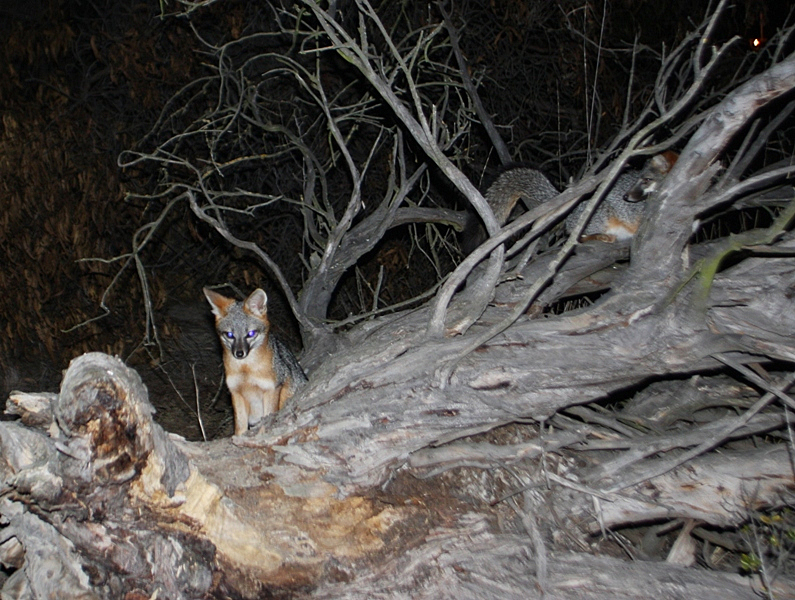 Pair of gray fox in fallen tree at Palo Alto Golf Course near San Francisquito Creek in Santa Clara County. Please credit Bill Leikam.